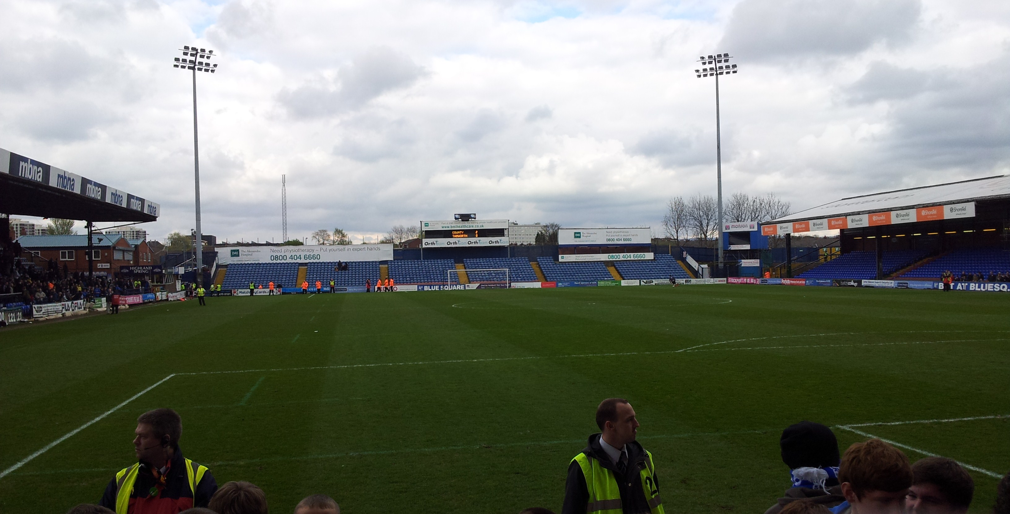 Edgeley Park in Spring 2012.